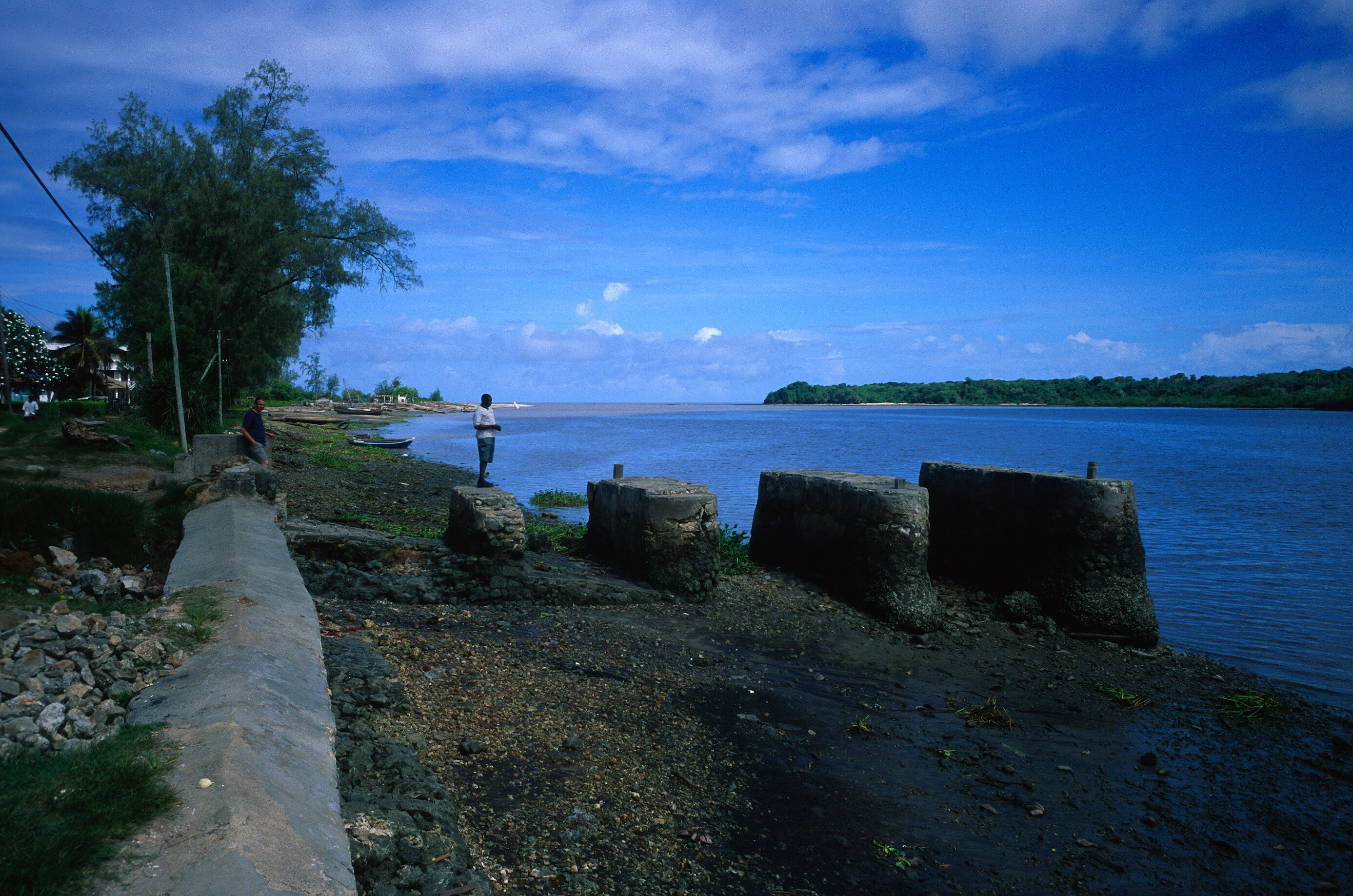 Pangani River mouth, Pangani, Tanzania